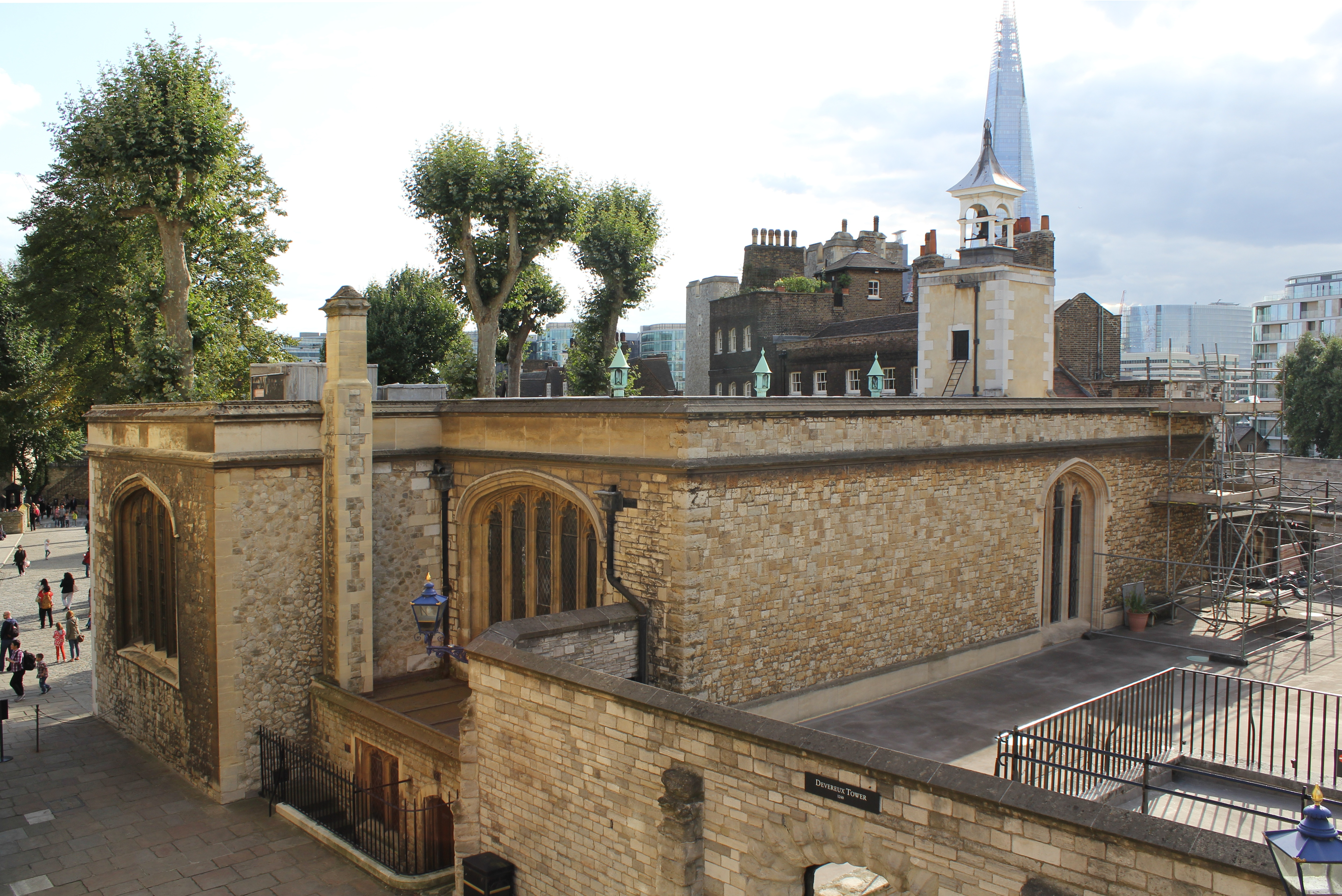 The chapel of St Peter ad Vincula at the Tower of London Wikidata has entry Q17645576 with data related to this monument.